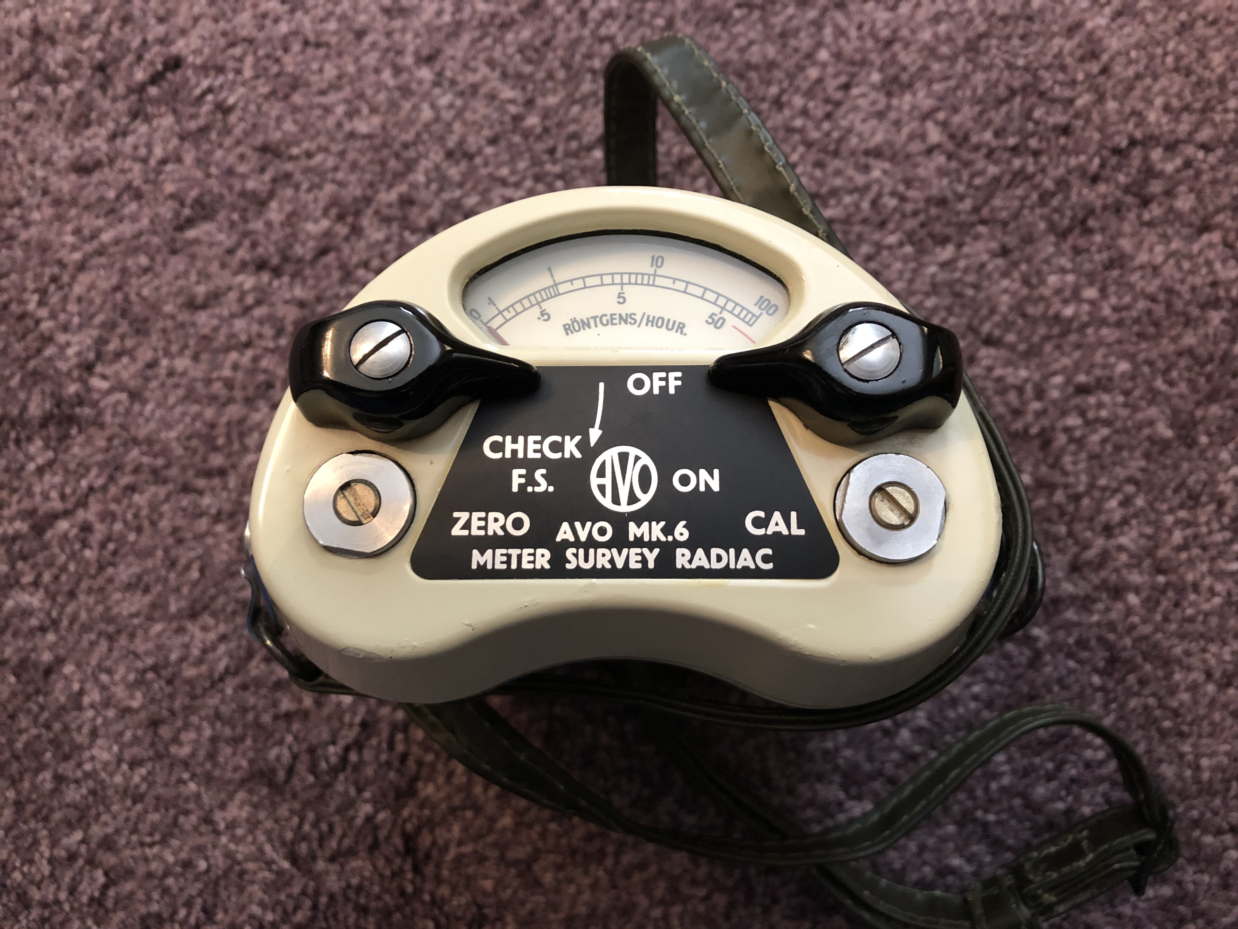 Photo showing the Radiac Survey Meter used by the Royal Observer Corps.